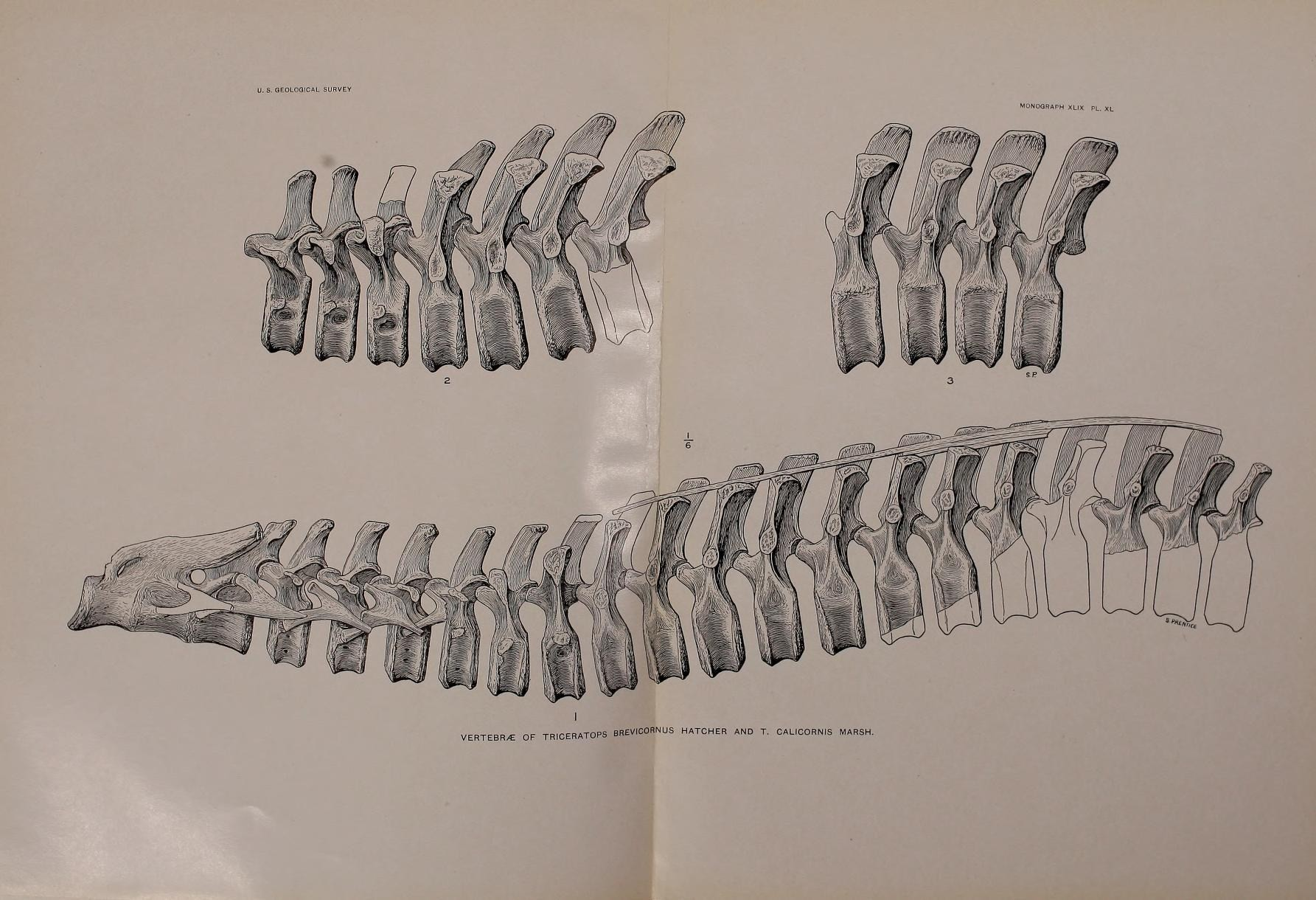 Vertebrae of Triceratops brevicornus Hatcher 1905, and Triceratops calicornis Marsh 1898. In 1992 and 1996 these two species were synonymised: T. brevicornus was synonymised with T. prorsus and T. calicornis was synonymised with T. horridus (see "Species resolution in Triceratops: cladistic and morphometric approaches", by Catherine A. Forster, Taylor and Francis (1992), Journal of Vertebrate Paleontology (1996).